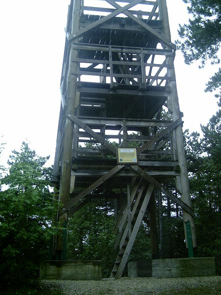 Kitaibel view tower in Vonyarcvashegy